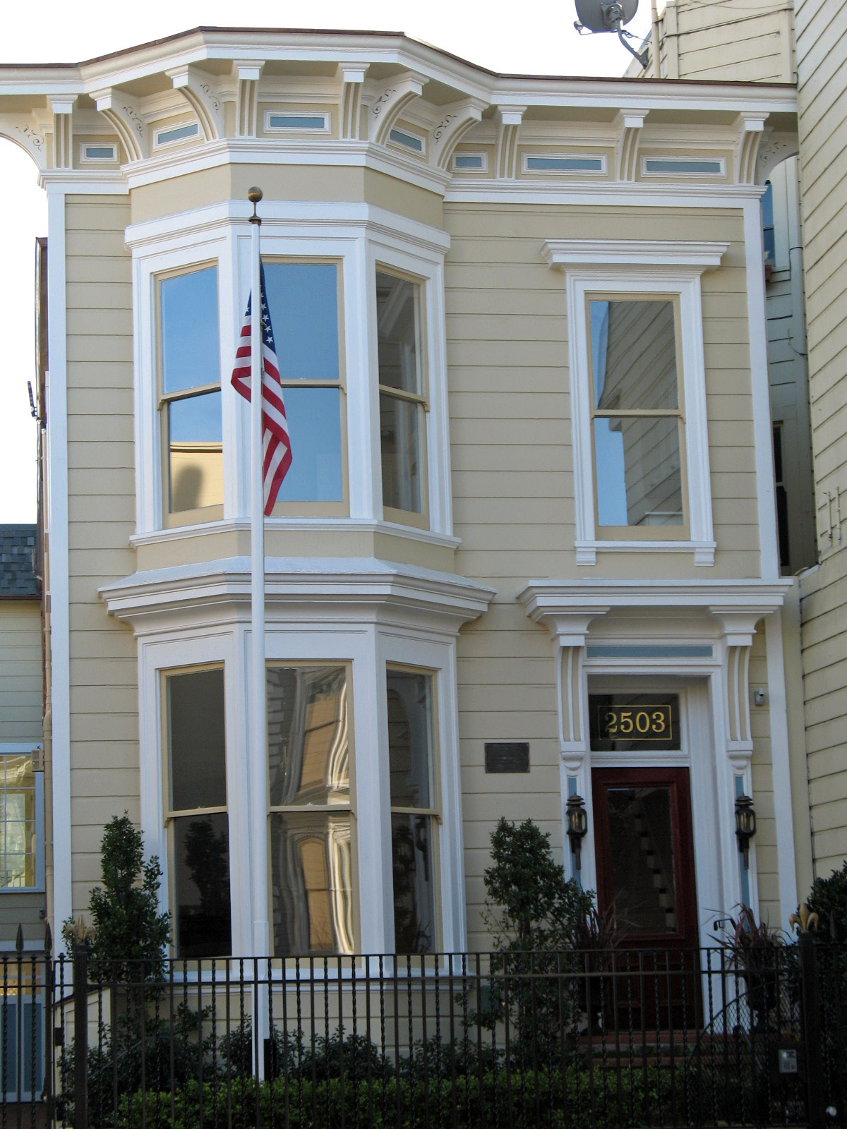 National Register of Historic Places in San Francisco, California. The Real Estate Associates (TREA) House, located at 2503 Clay St., San Francisco, USA. Photographed 2008-02-17 by Mike Hofmann at street level from north side of Clay St.